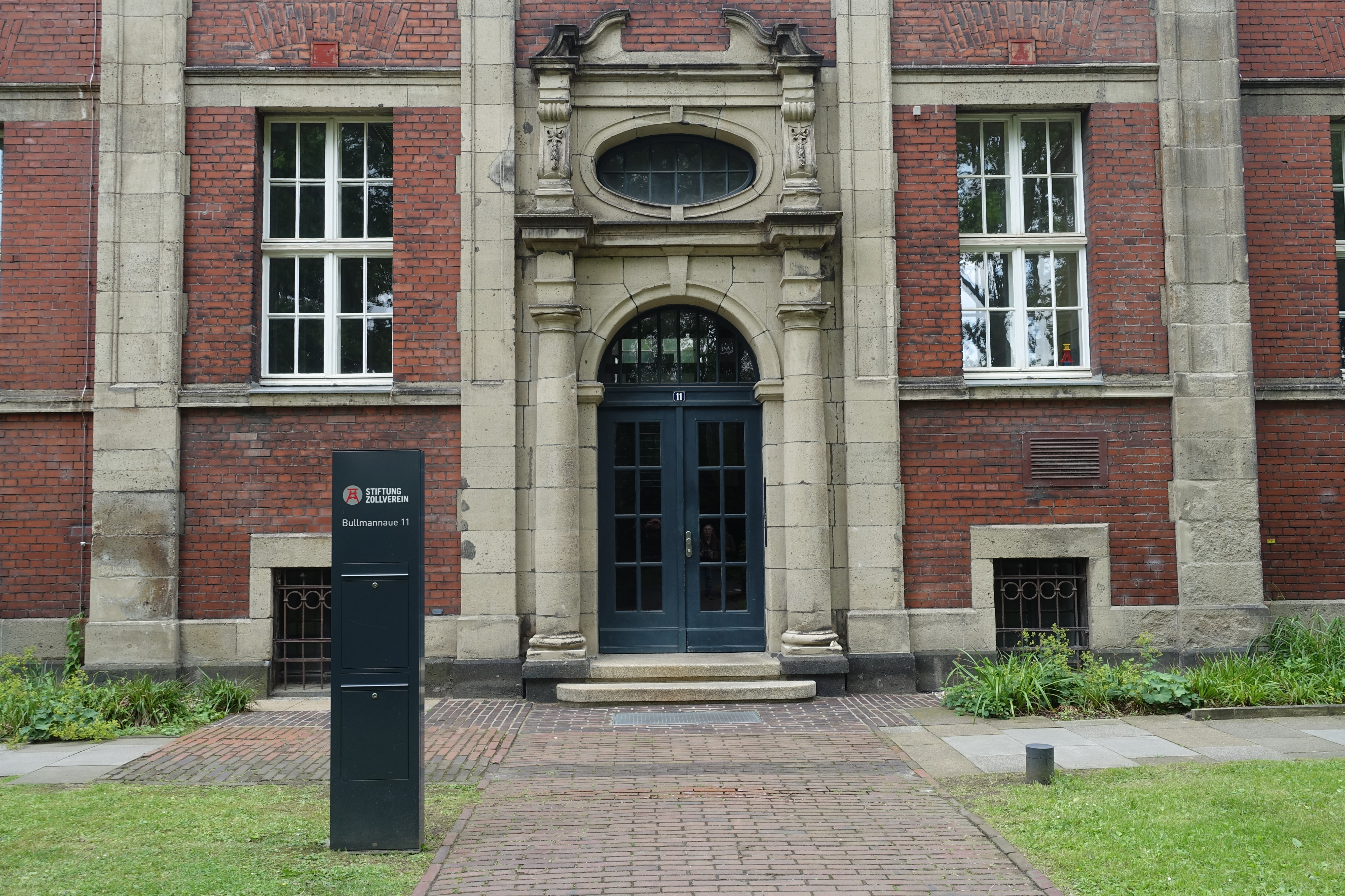 Entry Stiftung Zollverein